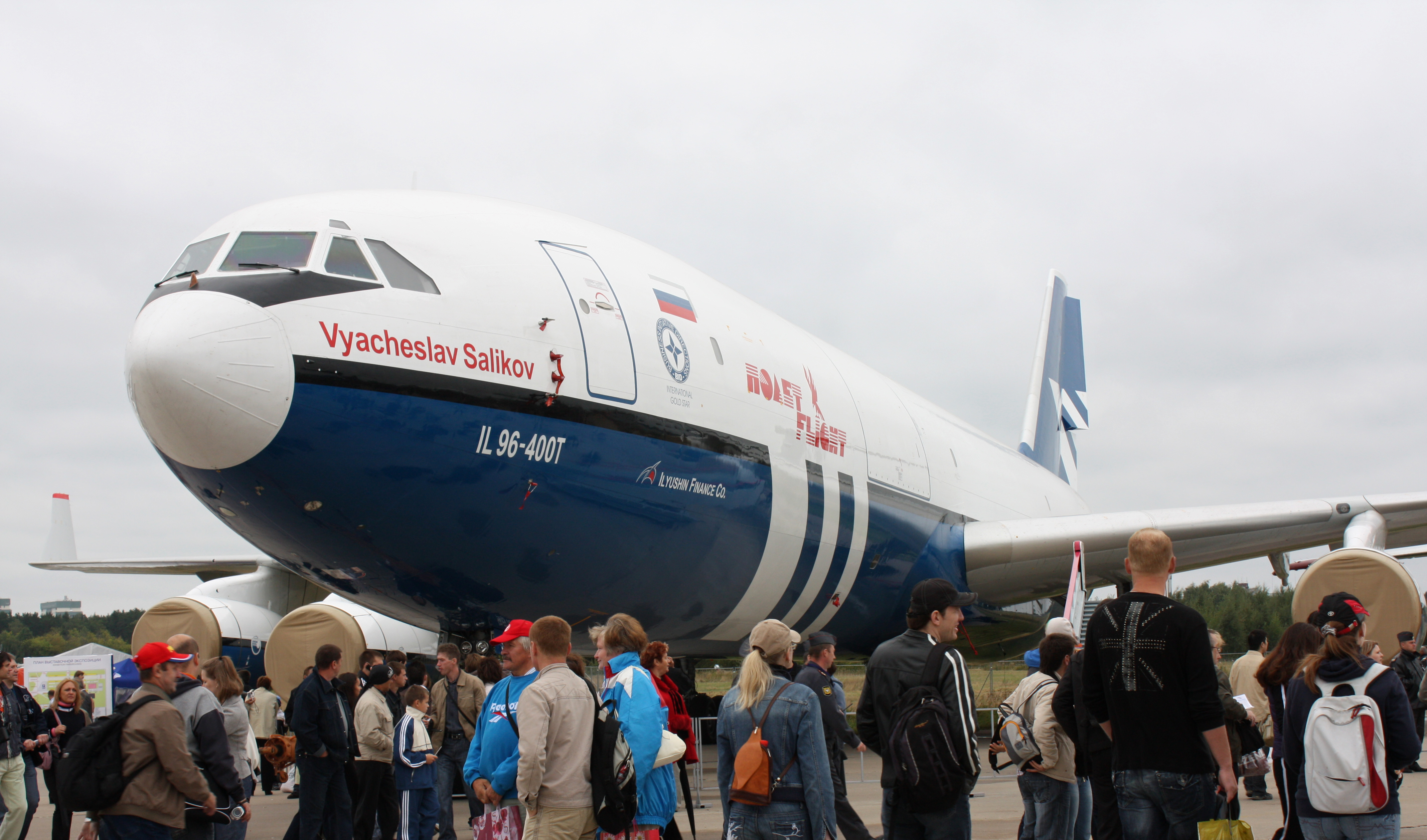 Ilyushin Il 96-400T (The international aerospace salon MAKS-2009)